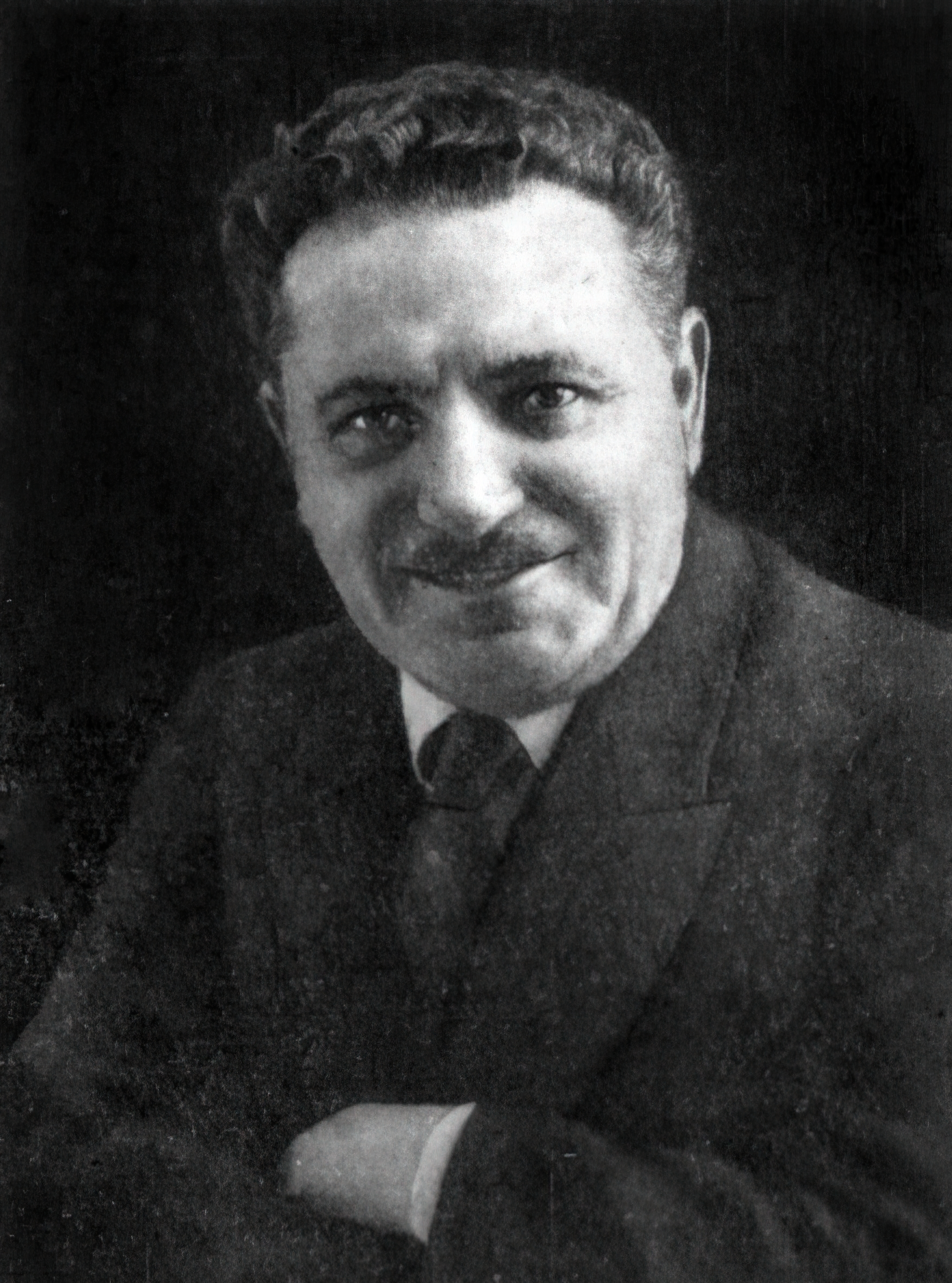 Taken in 1925, copyright expired. Please see website disclaimer, image source and information document.